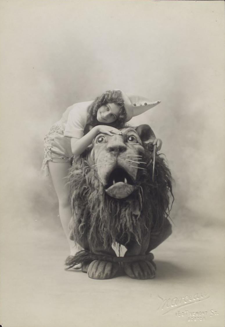 Anna Laughlin as Dorothy and Arthur Hill as the Cowardly Lion in the 1902 musical The Wizard of Oz.